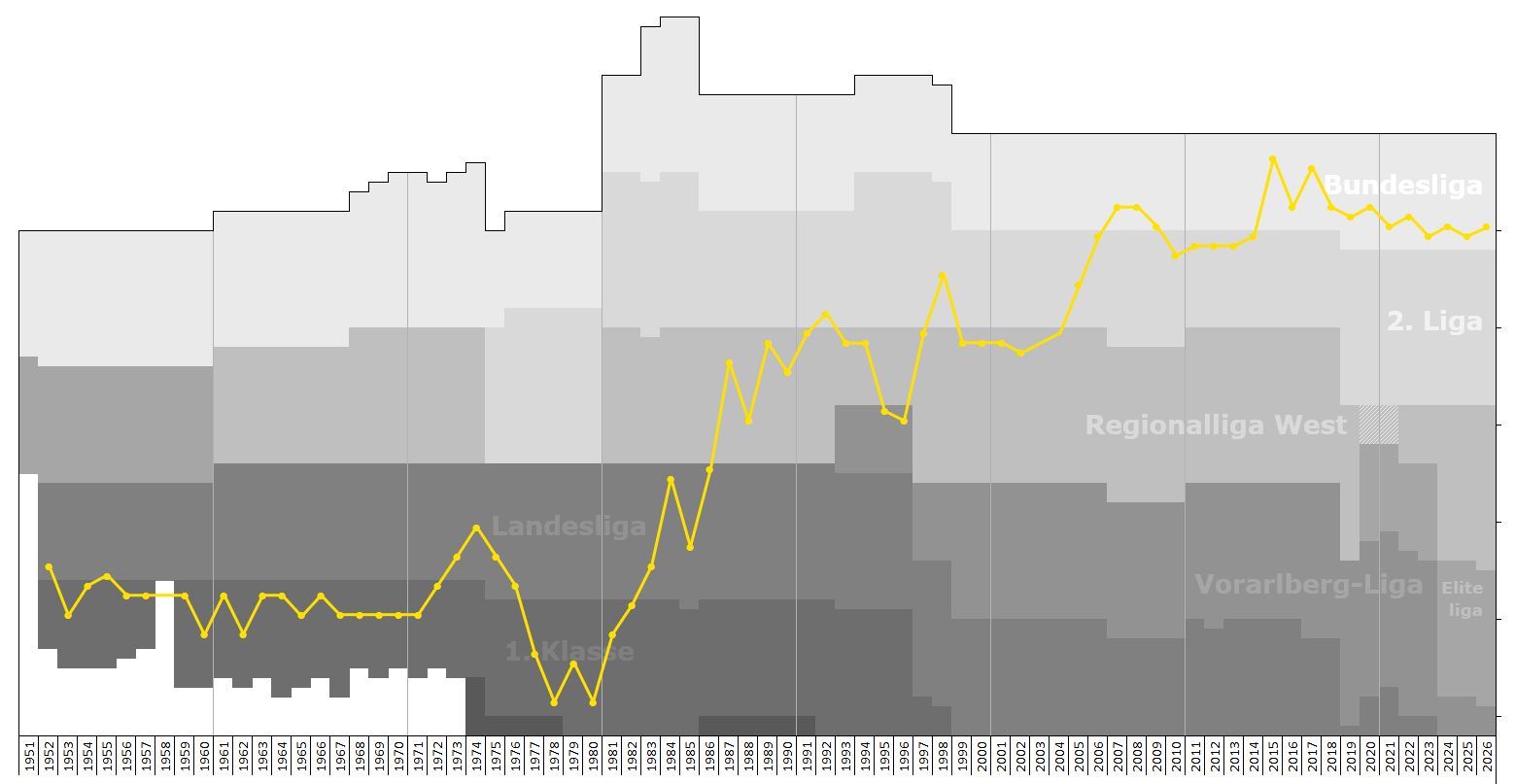 Chart of end-season table positions of SCR Altach in the Austrian football league system. Data source: RSSSF, , regiowiki.at, vfv.at, wikipedia